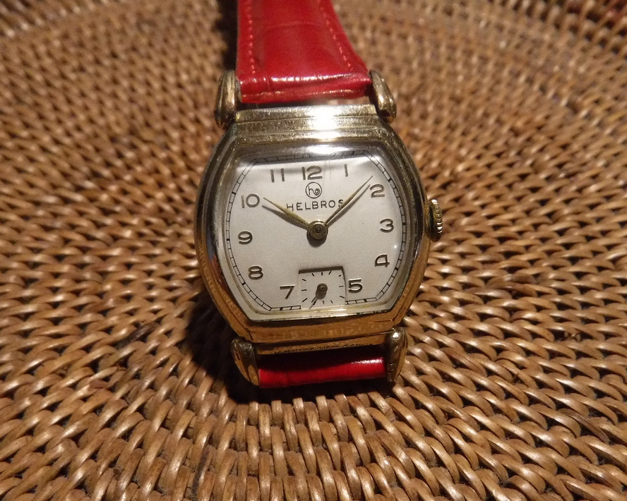 A tonneau watch.